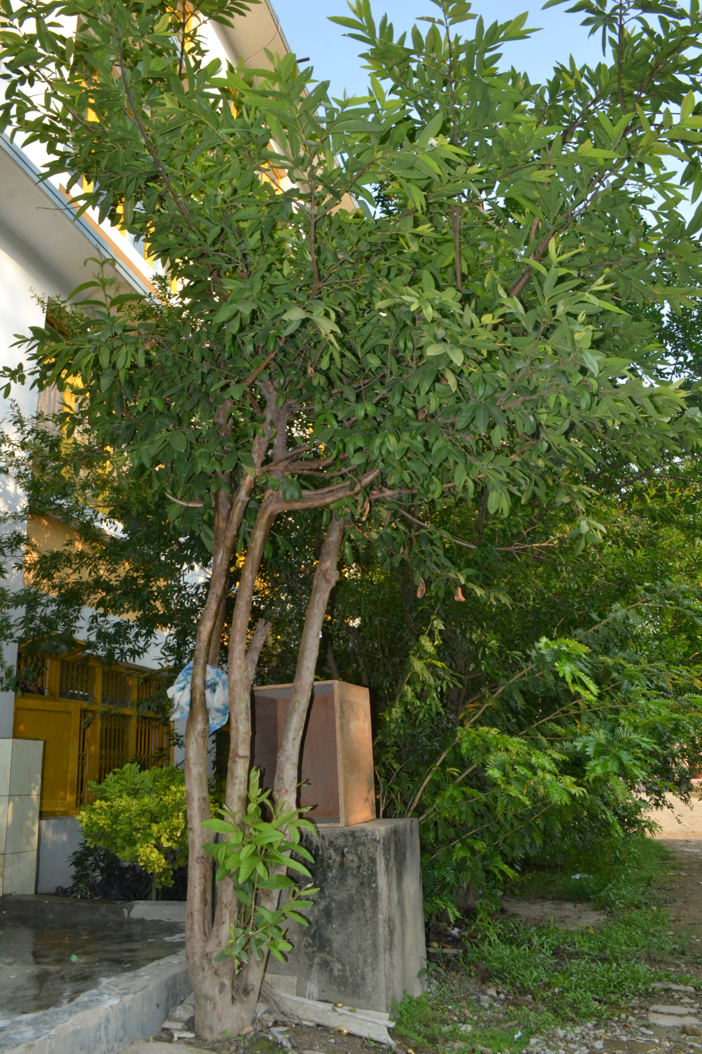 Guava tree at Kathmadu.